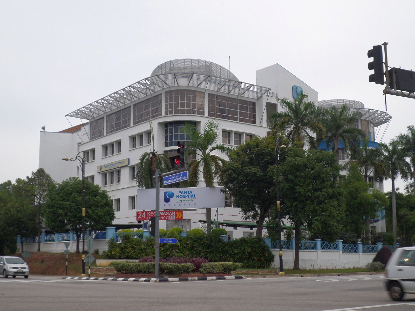 Pantai Hospital Ayer Keroh, Ayer Keroh, Malacca, MalaysiaBahasa Melayu: Hospital Pantai Ayer Keroh, Ayer Keroh, Melaka, Malaysia